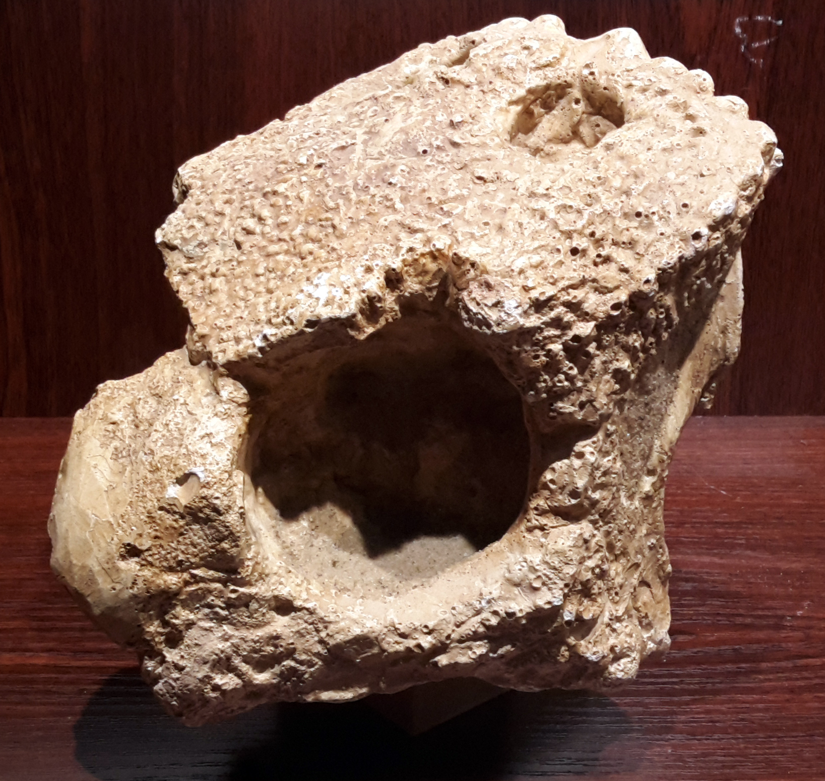 Homalocephale skull cast, Museum of Evolution of Polish Academy of Sciences, Warsaw.